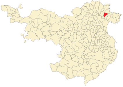 Vilajuïga